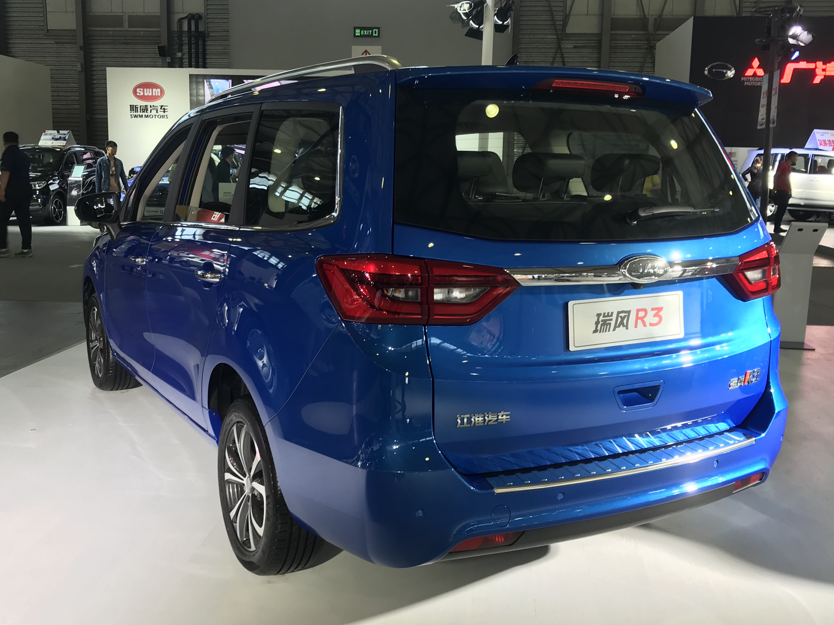 Refine R3 rear